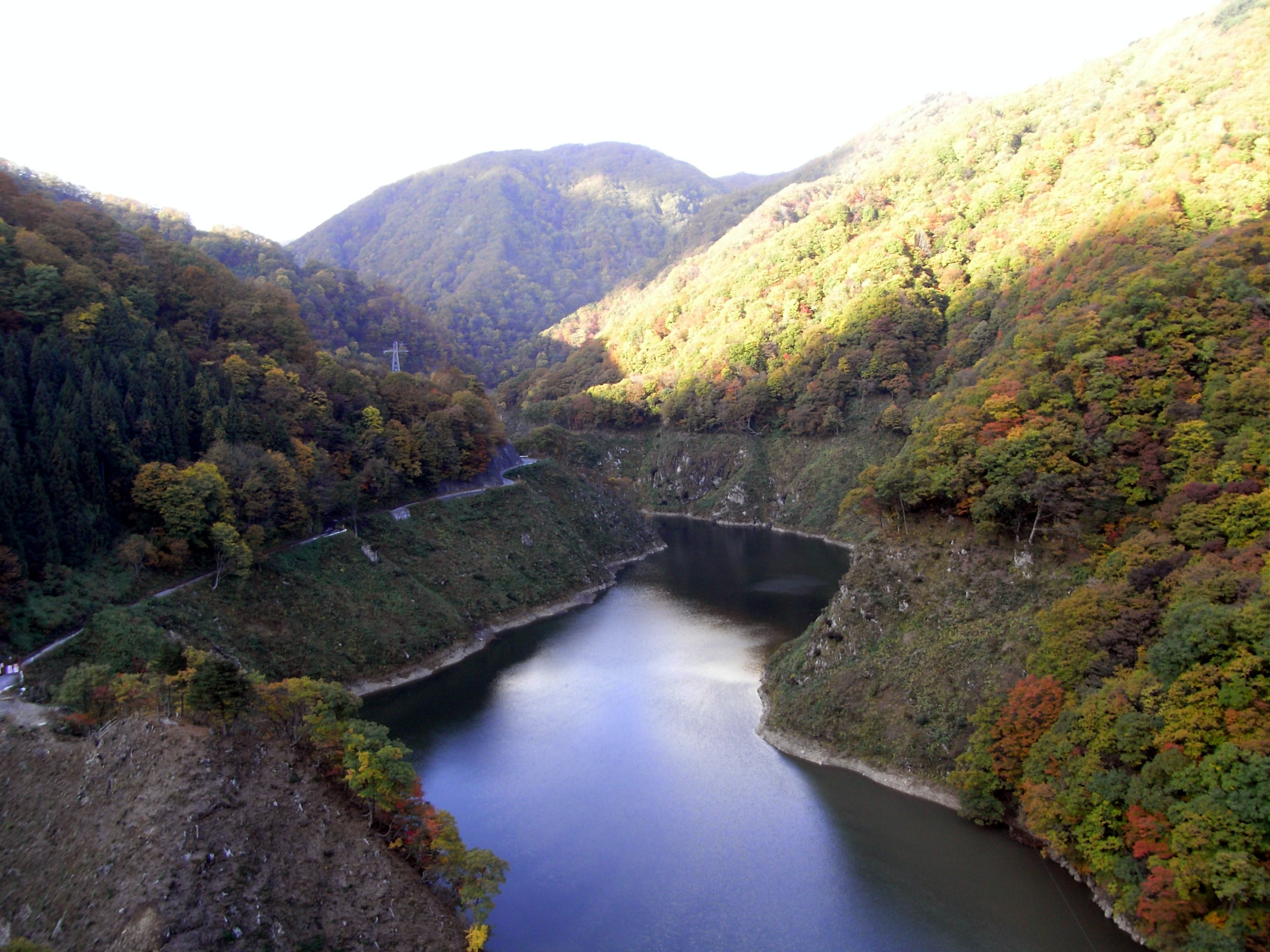 Kanno Reservoir(Okitamanogawa river/Yamagata Pref./Japan)